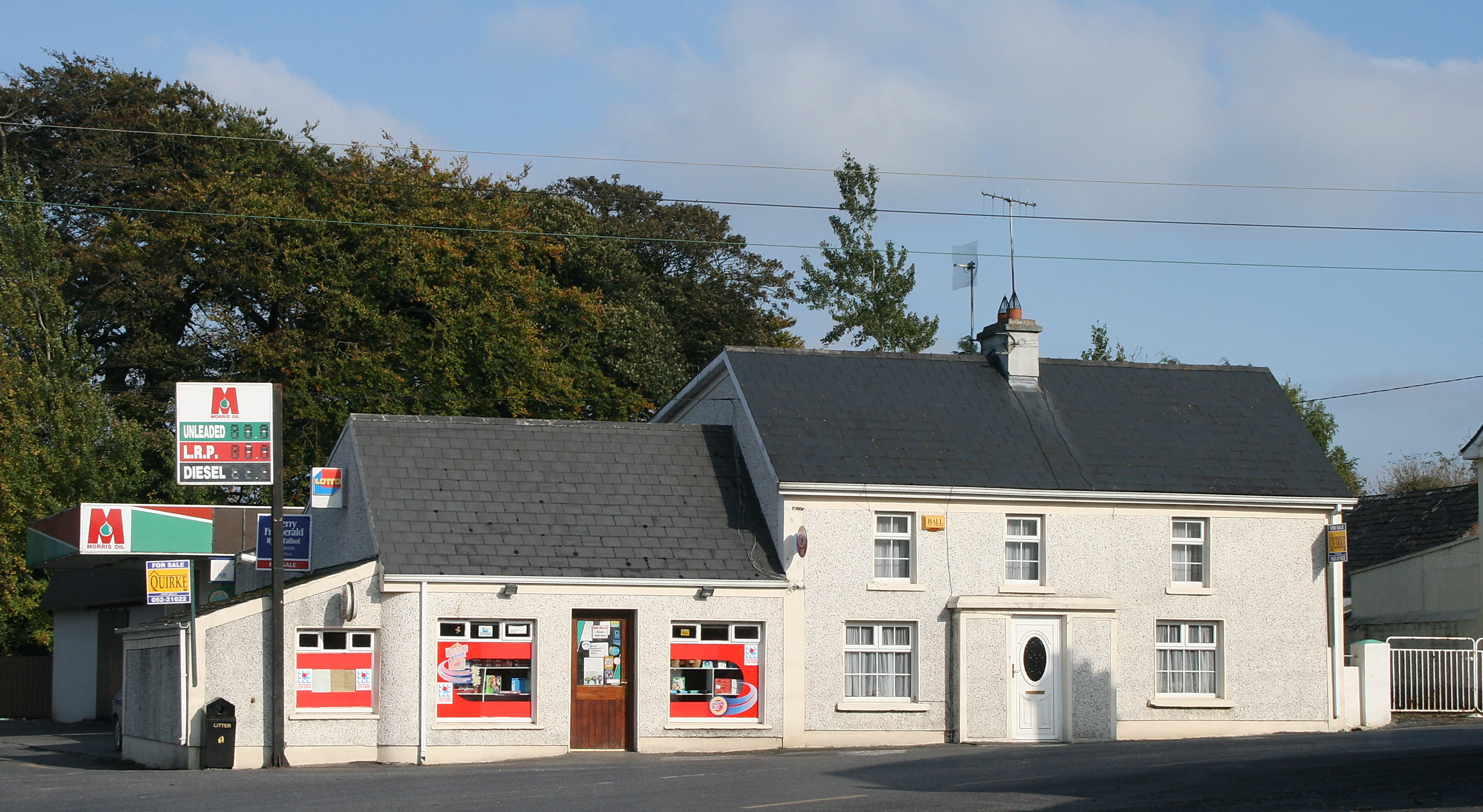 Morris Oil ; Ballysloe, County Tipperary, near to Ballysloe, Tipperary, Ireland. On the R689.